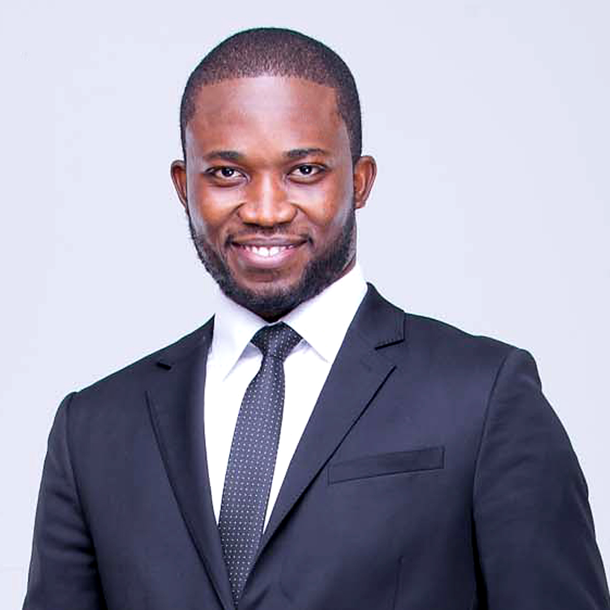 Radio presenter at YFm